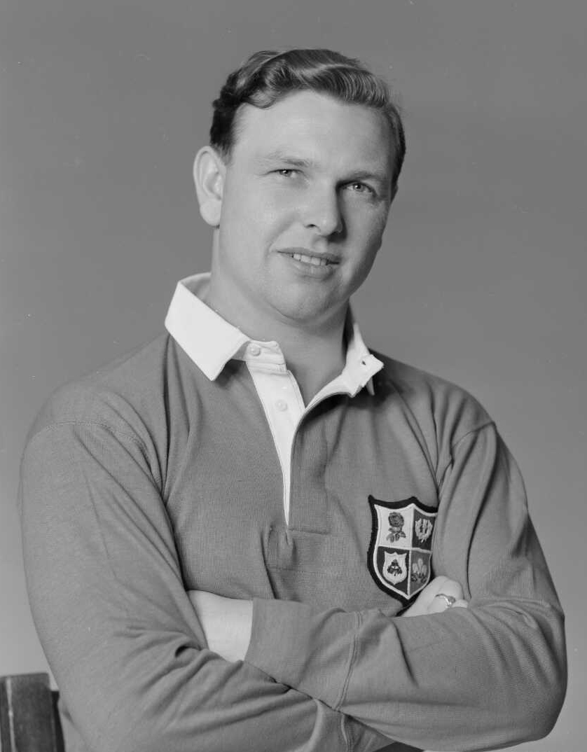 B L Williams, vice captain of the British Lions rugby union team